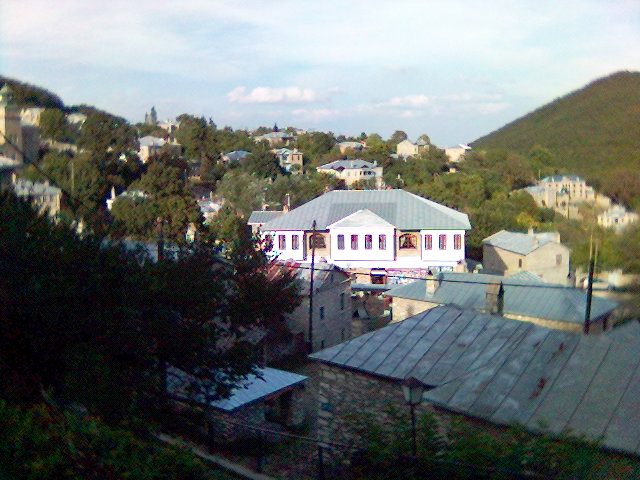 The village of Nymfaio